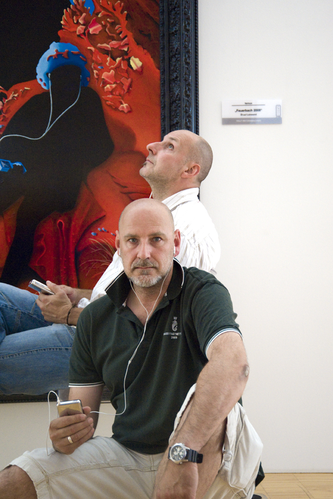 Thorsten and Kai Wingenfelder (Ex Fury in the Slaughterhouse) in front of the picture "Feuerbach 2008" from artist Ralf Metzmacher. Exhibition "From Puma to Pan"